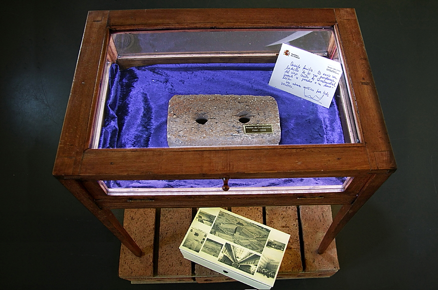 This project approaches the complex topic of historical remembering in the cityscape of Madrid via the object of a brick. The brick establishes memories of the prison Carabanchel which was inaugurated in 1944 and built by the political prisoners that were held in the Saint Ginés College at the time. In particular, the college saved a group of political prisoners who had united in their struggle for democratic freedom. Memories of the lives and struggles in and across the prison became hidden further with the demolition of the Carabanchel building in 2008.